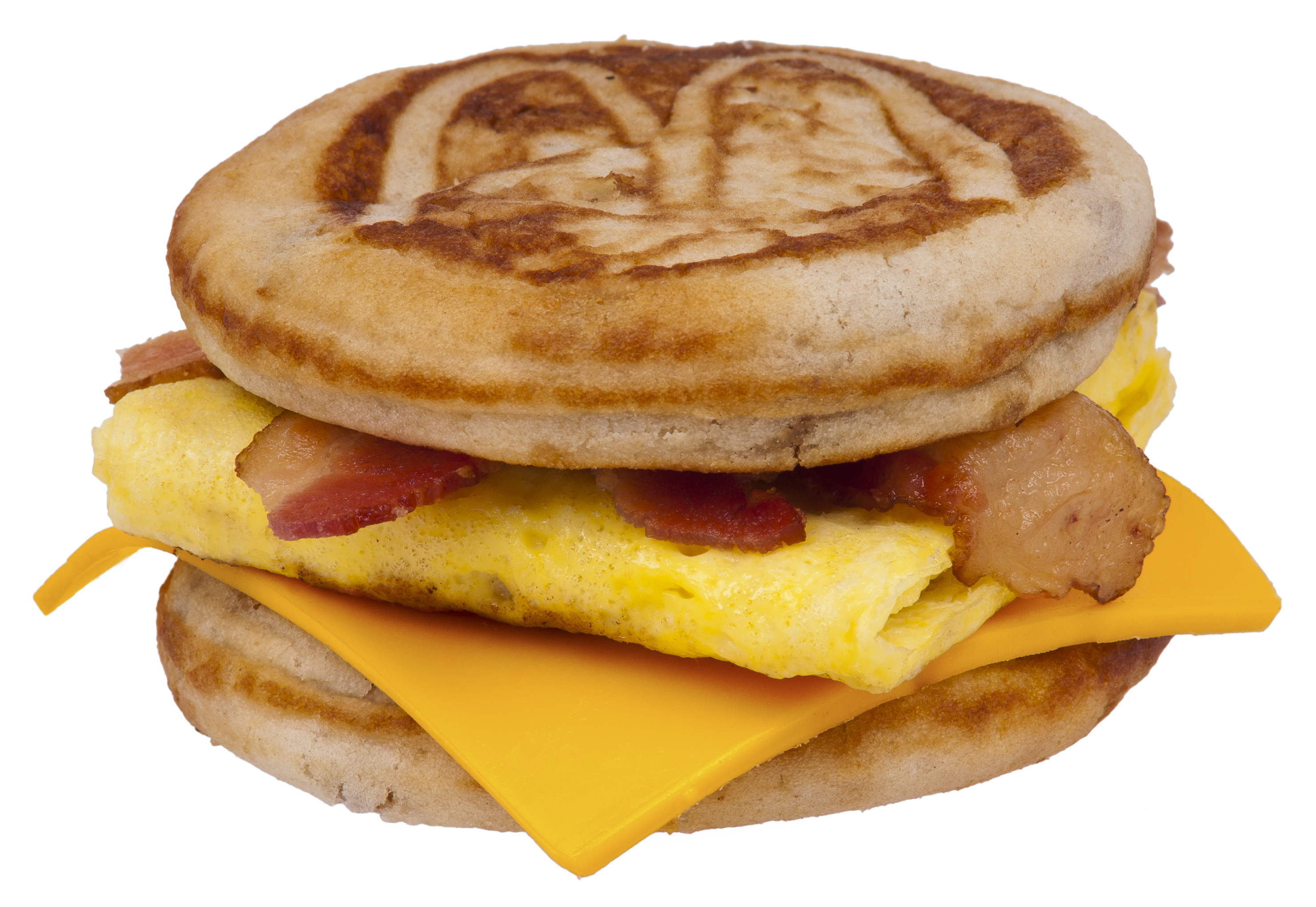 A Bacon, Egg & Cheese McGriddle as bought from an American McDonald's fast food restaurant.